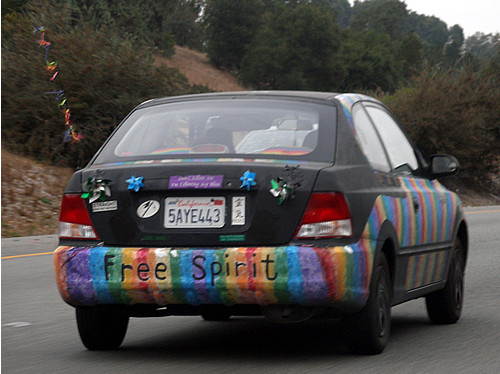 An art car labeled "Free Spirit." Seen heading northbound on the Junipero Serra Freeway, Interstate 280 (California), in Los Altos Hills, California. Photographed on September 15, en:2005 by user Coolcaesar.